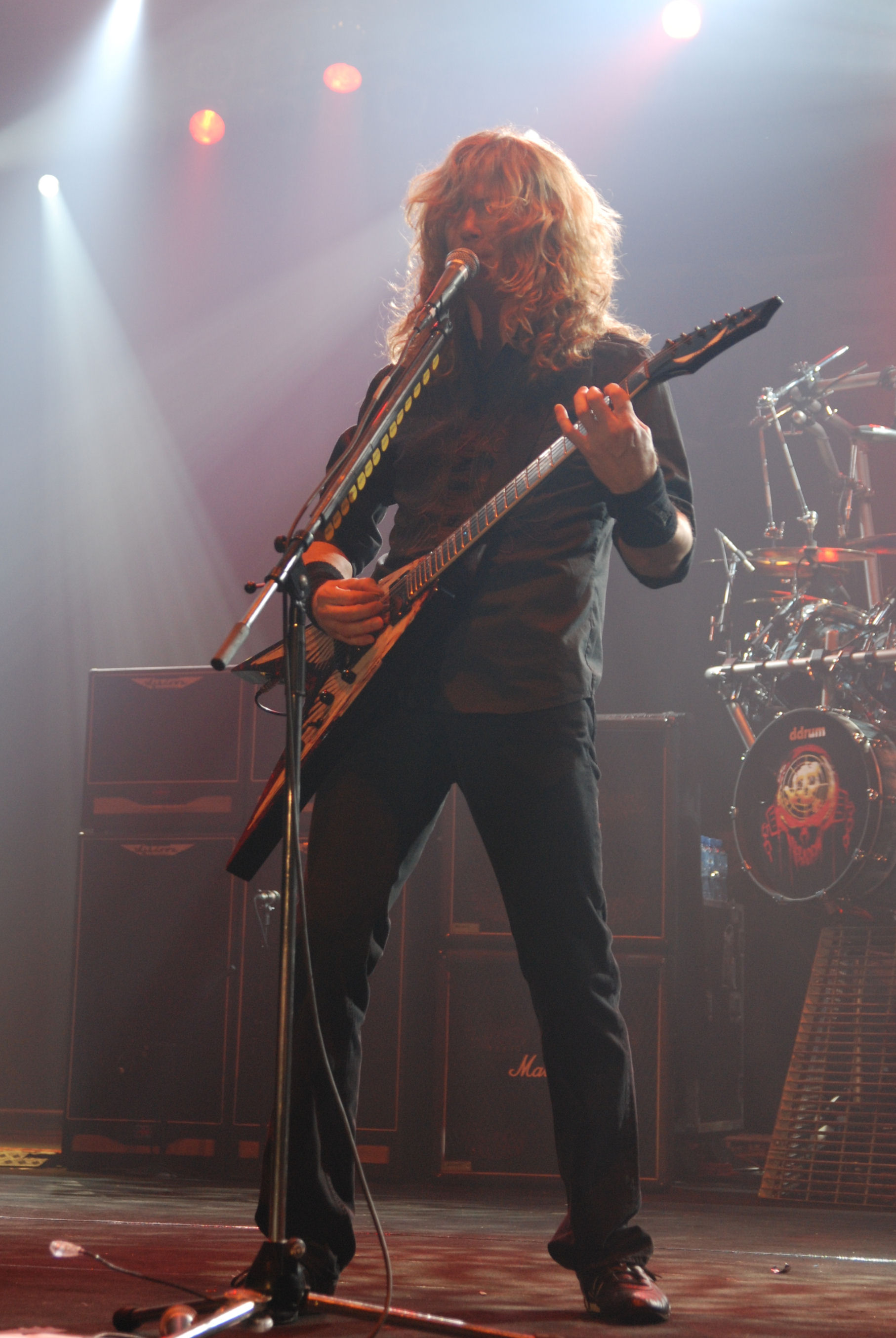 Dave Mustaine from Megadeth during Metalmania 2008 festival